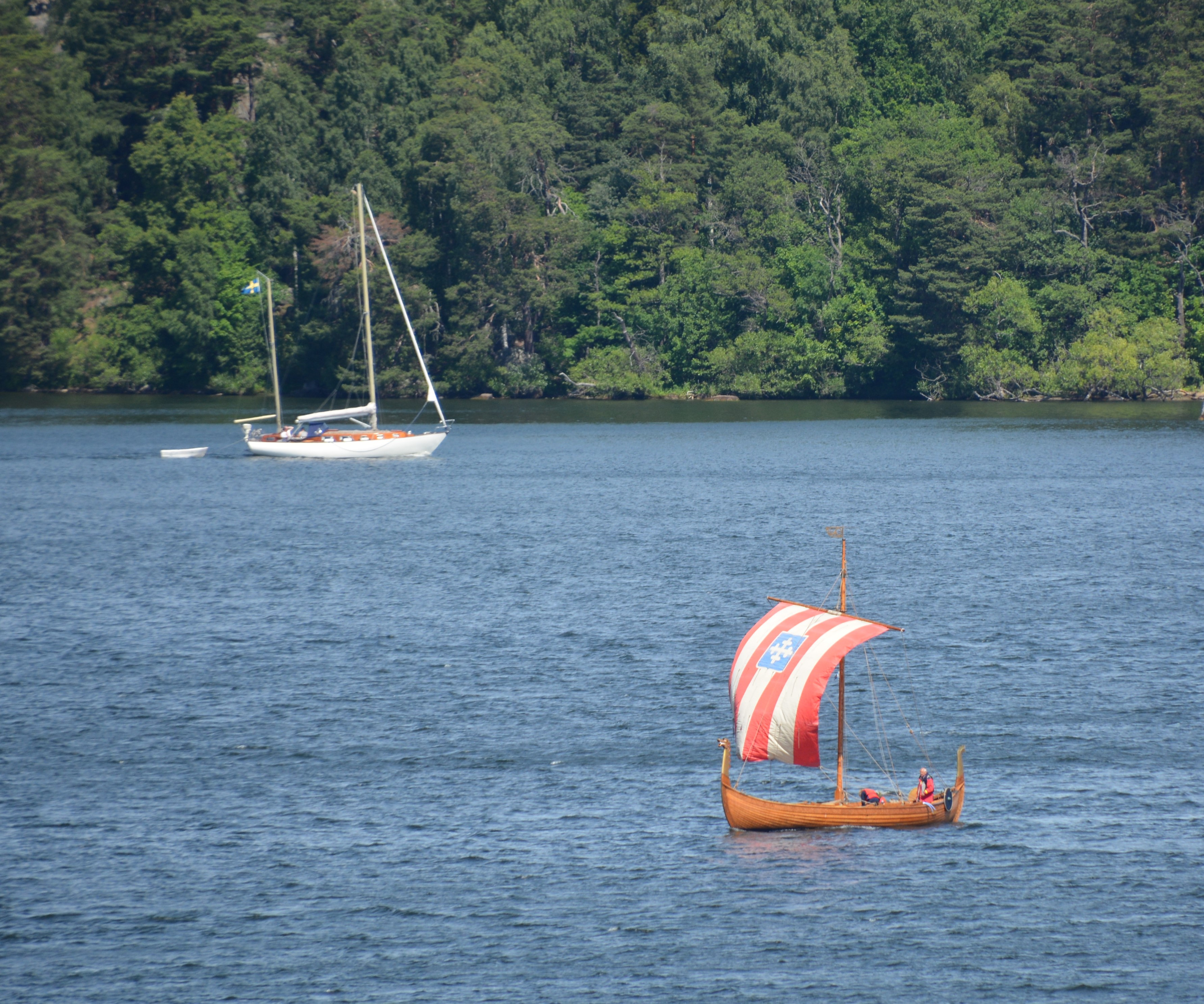 Bjarke, Viking ship replica (downscaled), and modern sailing boat at Mälaren, June 2017